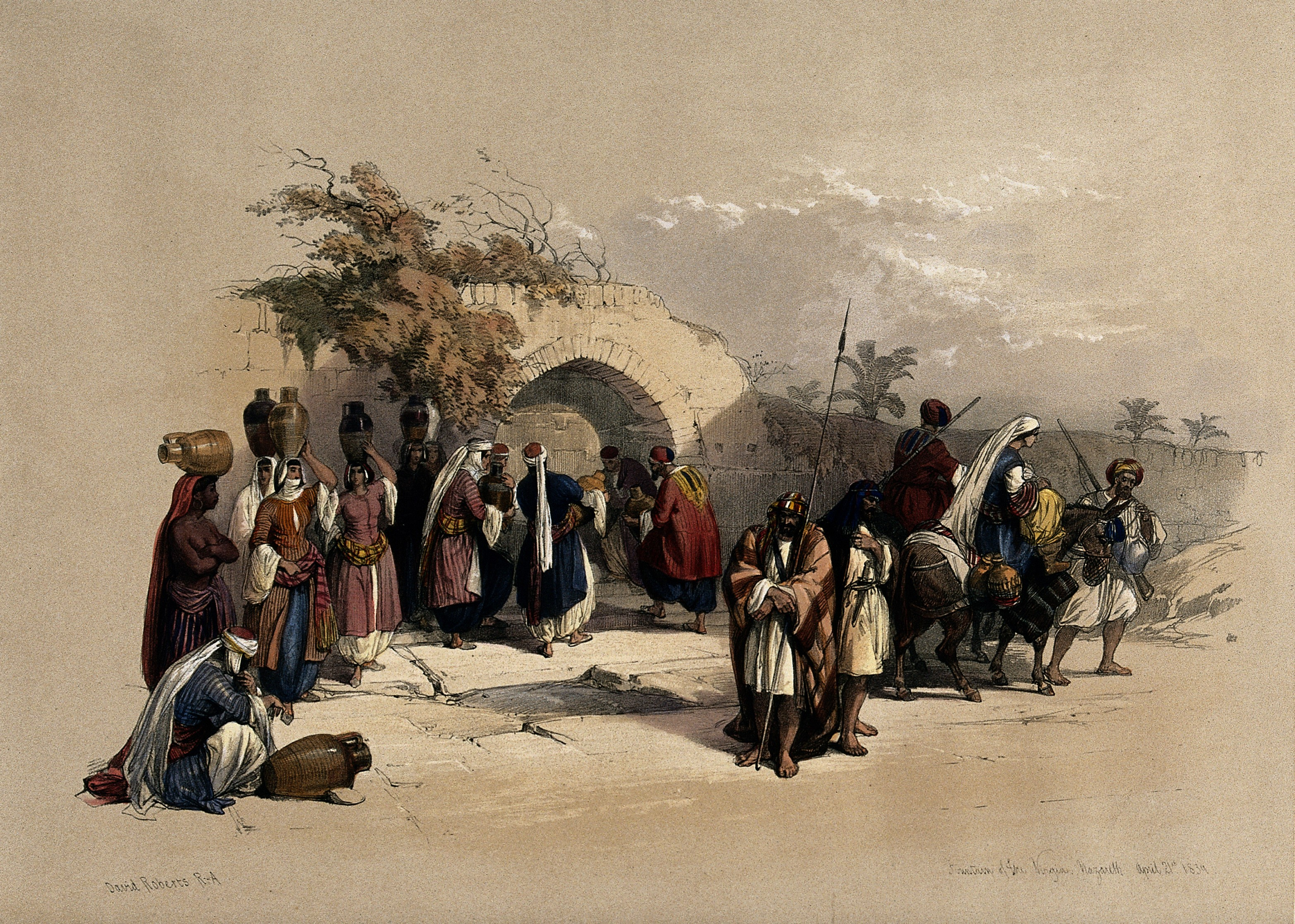 Fountain of the Virgin, Nazareth. Coloured lithograph by Louis Haghe after David Roberts, 1842. Iconographic Collections Keywords: David Roberts; Louis Haghe